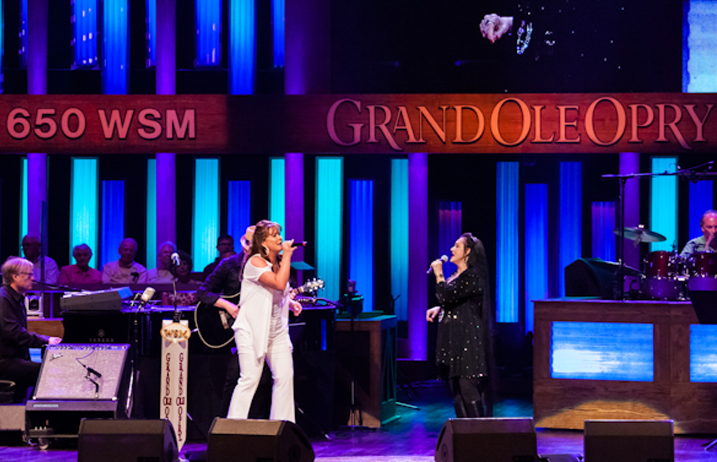 Sherry Lynn and Crystal Gayle perform their duet Beautiful Life on the stage of the Grand Ole Opry June 29, 2013